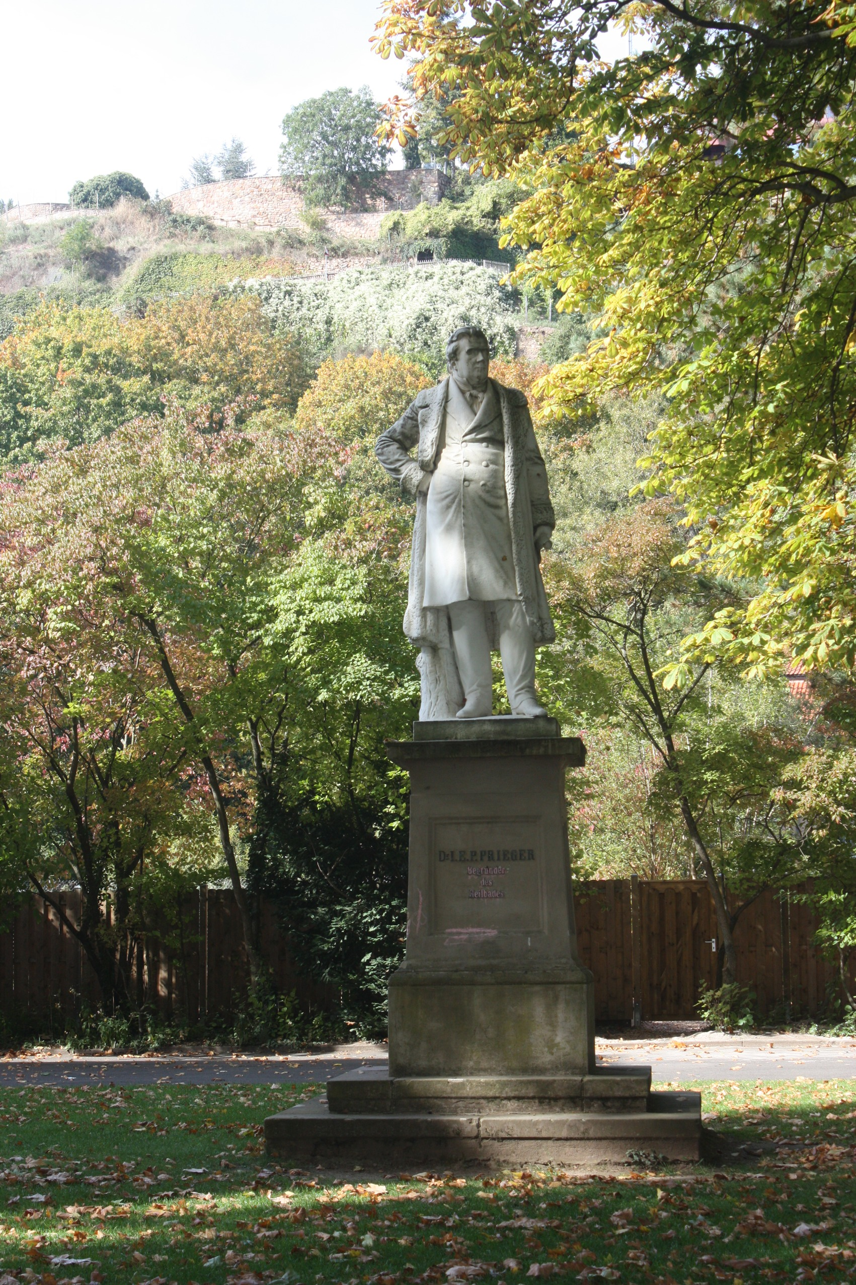 Bad Kreuznach, memorial of Johann Erhard Prieger (Karl Cauer, 1867)